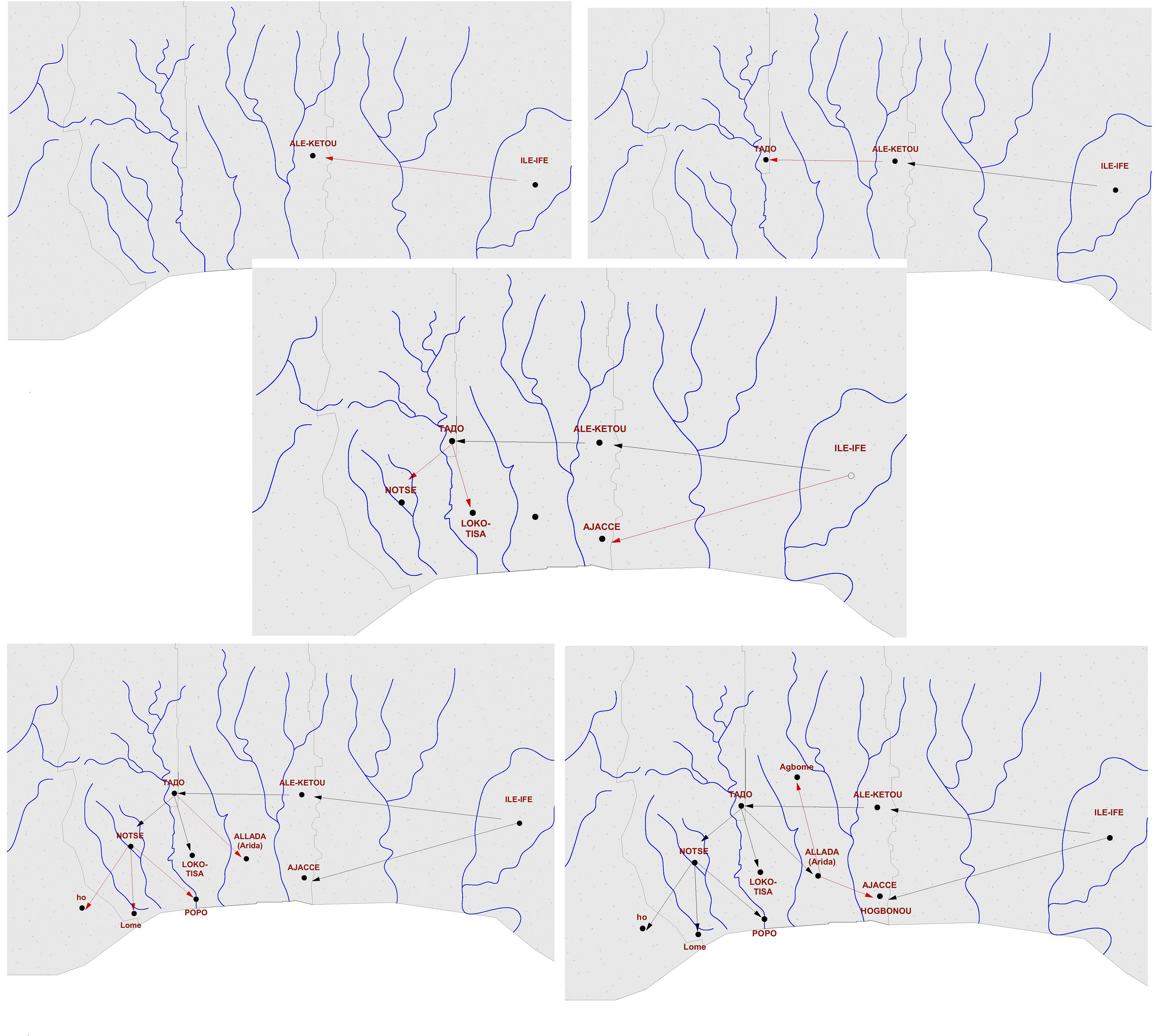 Peuplement du Pays-Adja